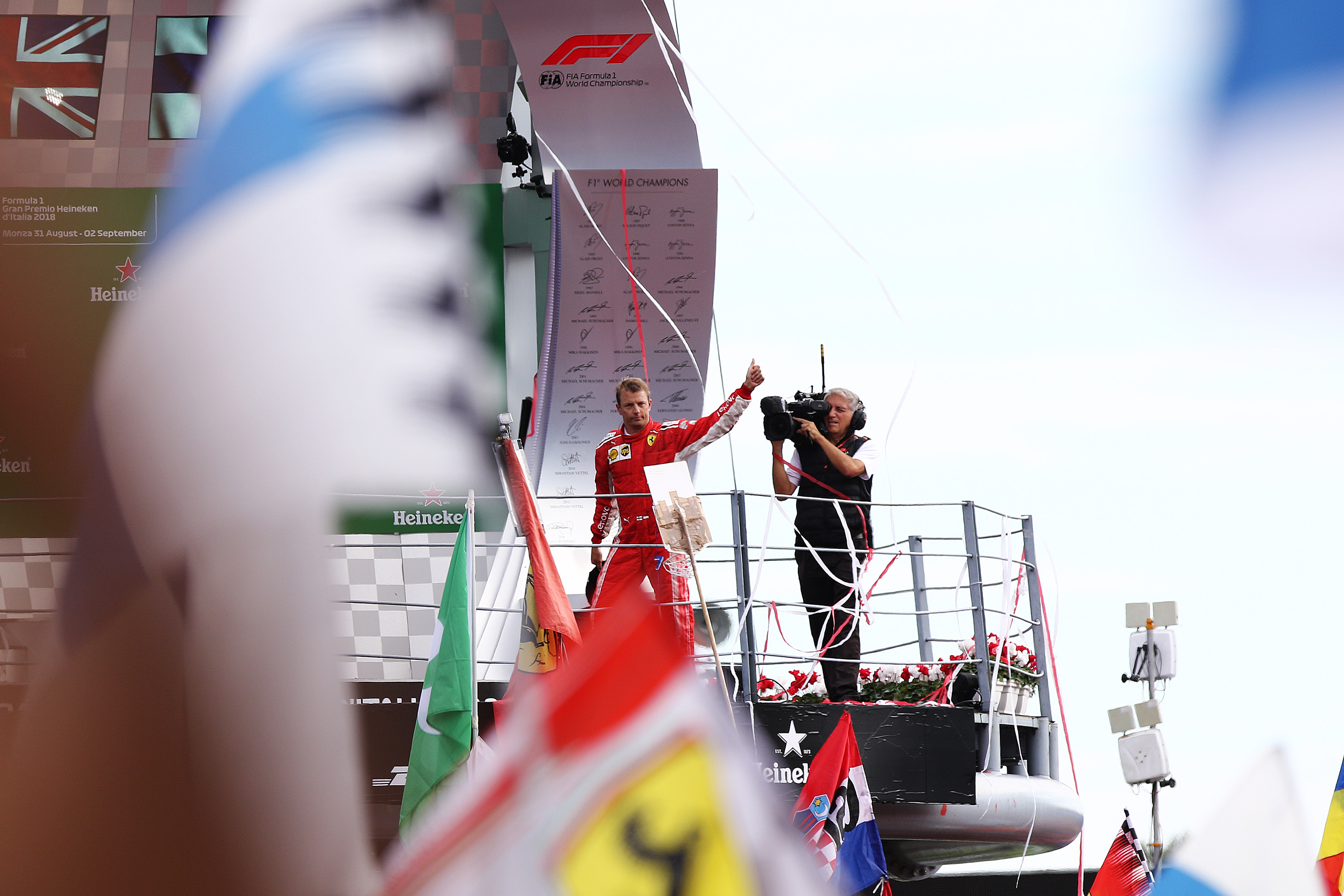 2018 Italian Grand Prix.